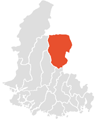 Location map for Åseral in Vest-Agder, Norway